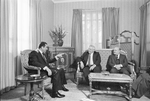 Ariel Sharon, People of Israel